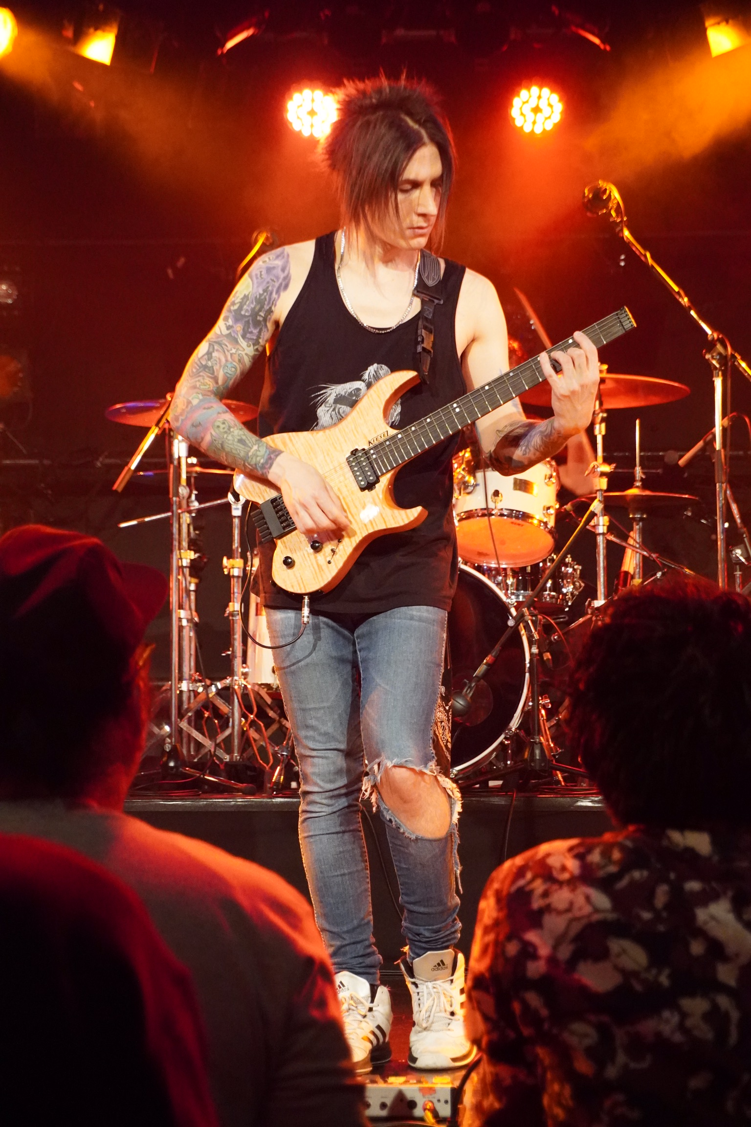 Tokyo Japan Nov 2019 Credit Joey Castro